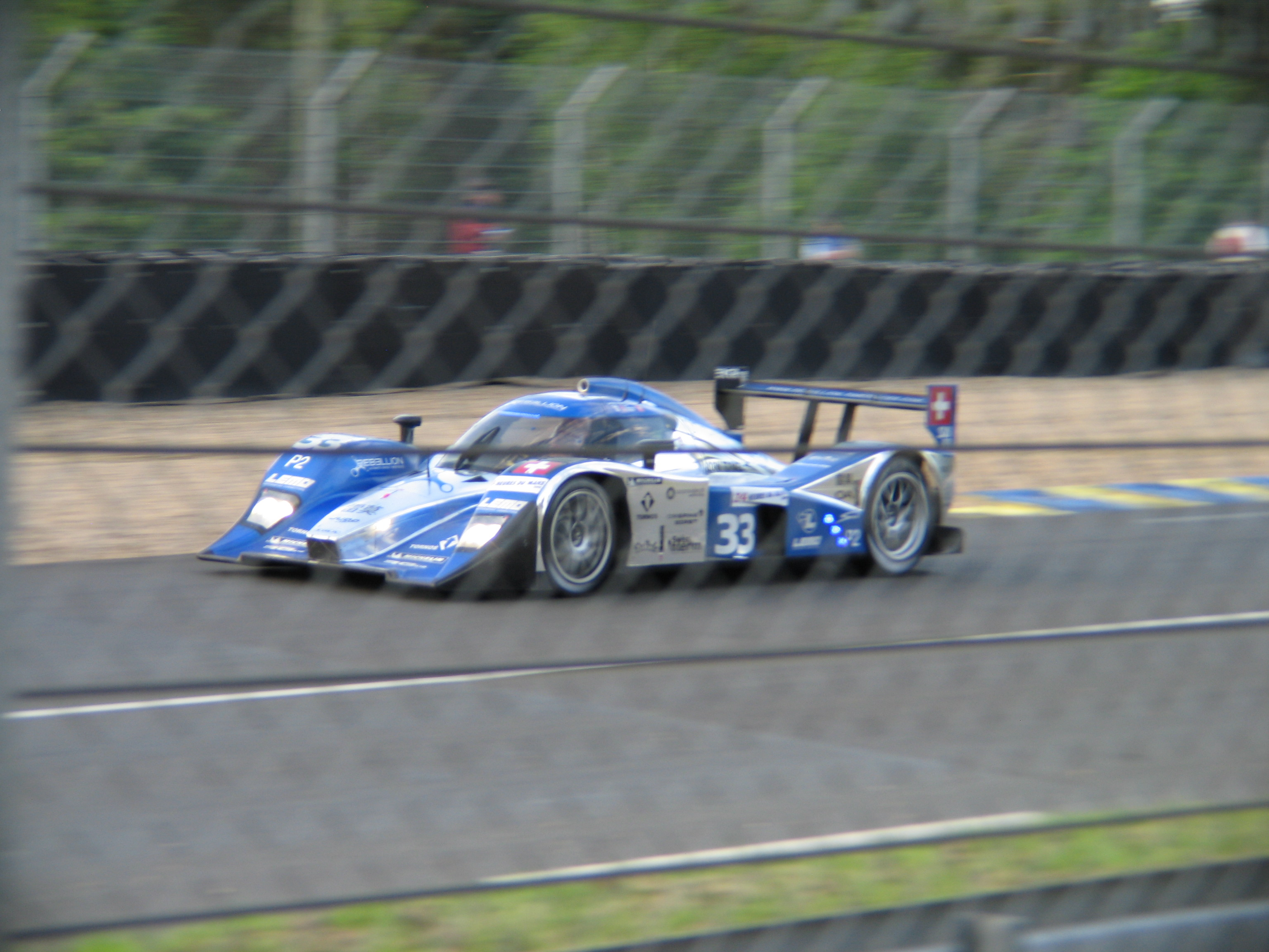 Speedy Racing Team Sebah's Lola B08/80-Judd approaching Arnage Corner at the 2009 24 Hours of Le Mans.